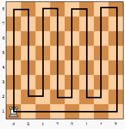 Soloution of knight's tour problem for a rook.